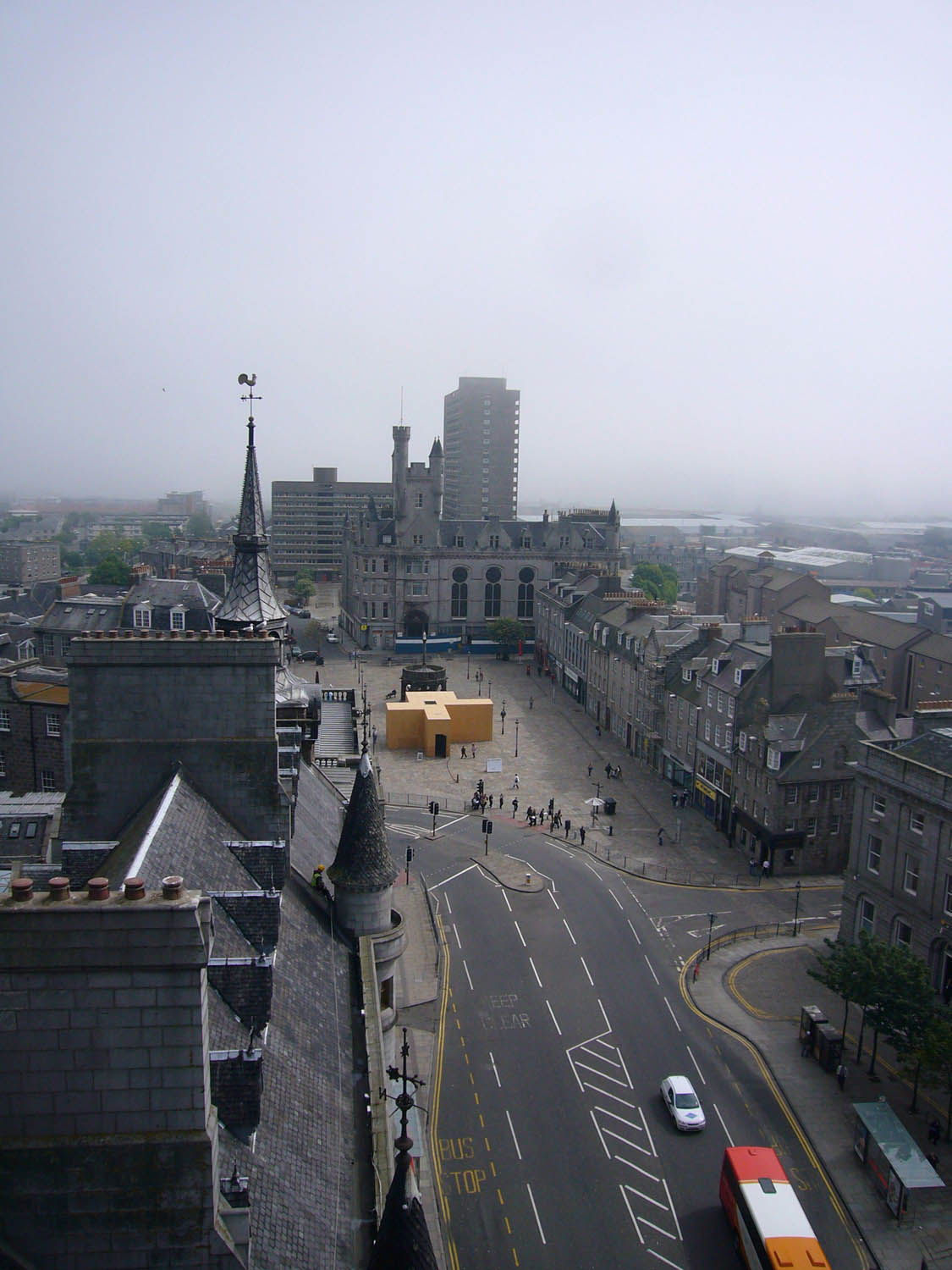 View from the north